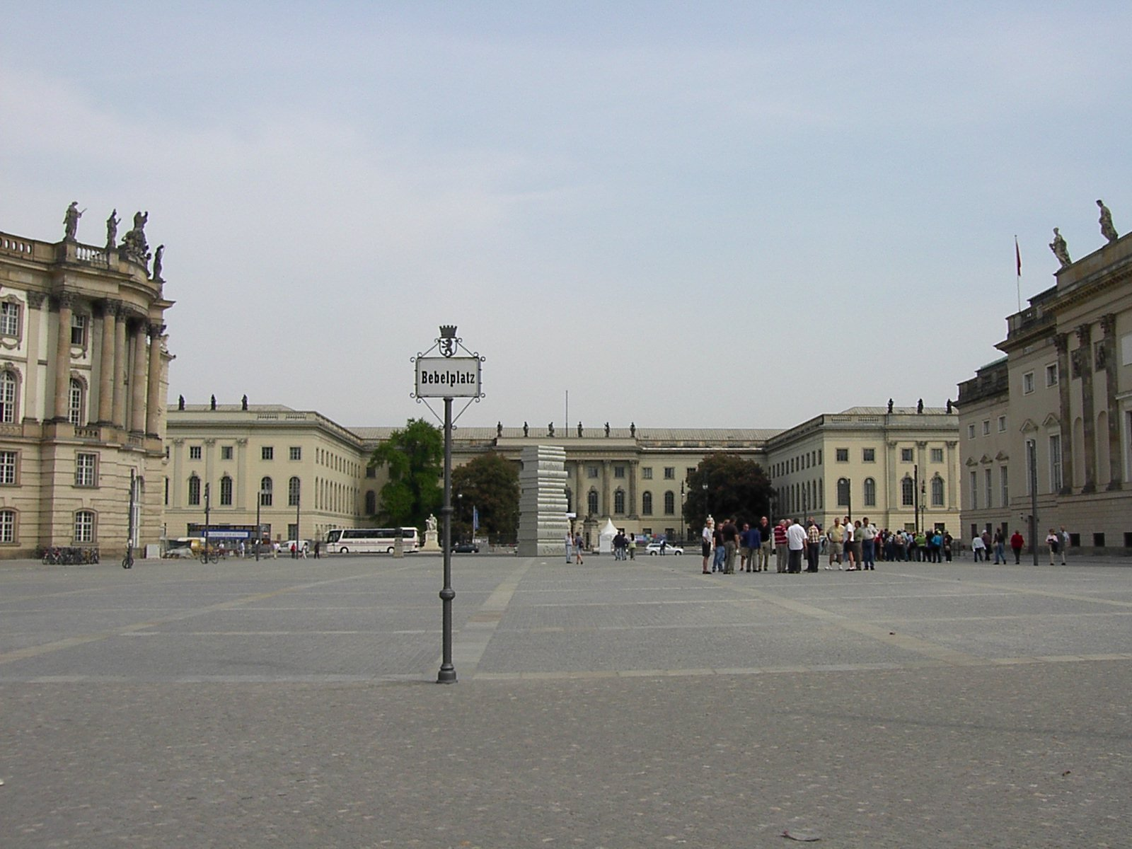 To the right, the State Opera. To the left, Humboldt University. The artwork depicting a large pile of books in the middle distance is a temporary exhibit and is not connected with the book-burning which took place in the centre of the square in 1933.